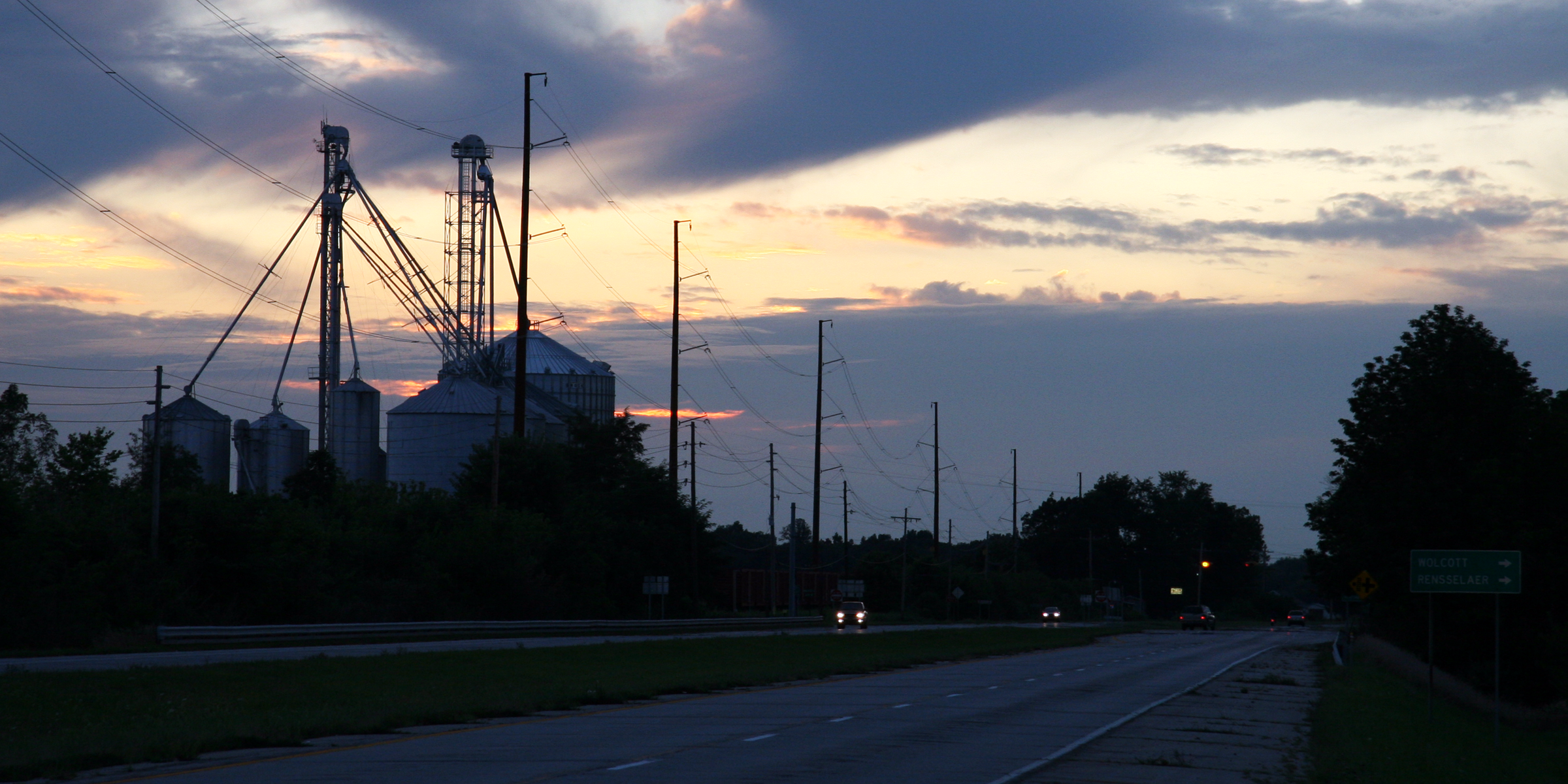 Looking west along U.S. Routes 52 and 231 toward the town of Montmorenci, Indiana.